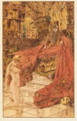 One of the etchings from En Rade by Joris-Karl Huysmans, published in Paris, Auguste Blaizot, 1911. Dim. : 30,7 x 25